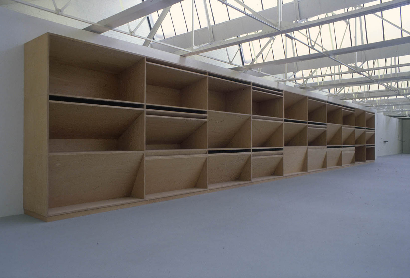 A Donald Judd work — installed at the Saatchi Gallery's Boundary Road site, England.